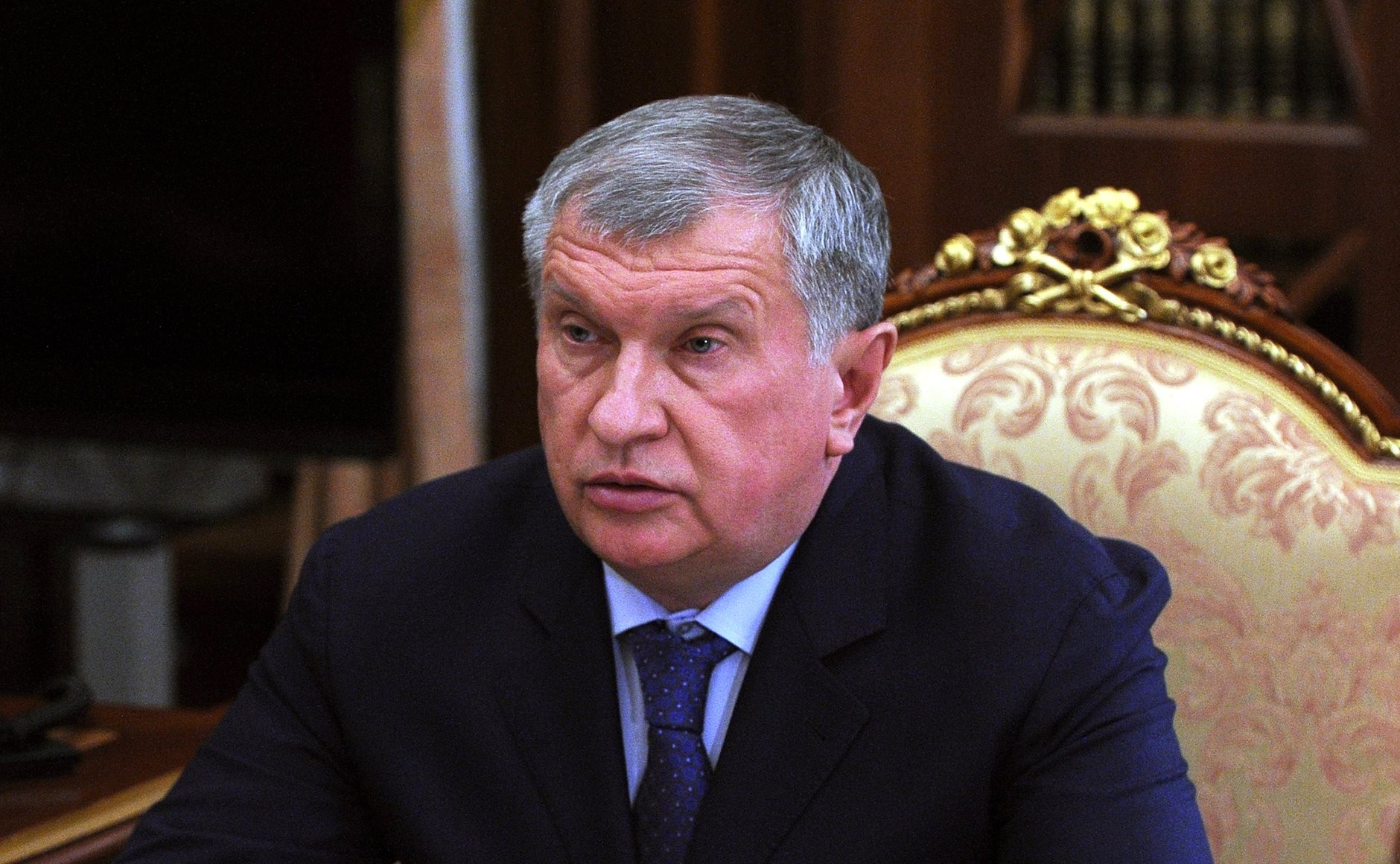 Rosneft CEO Igor Sechin.